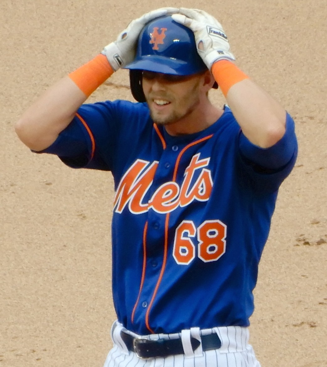 New York Mets infielder Jeff McNeil at Citi Field in 2018